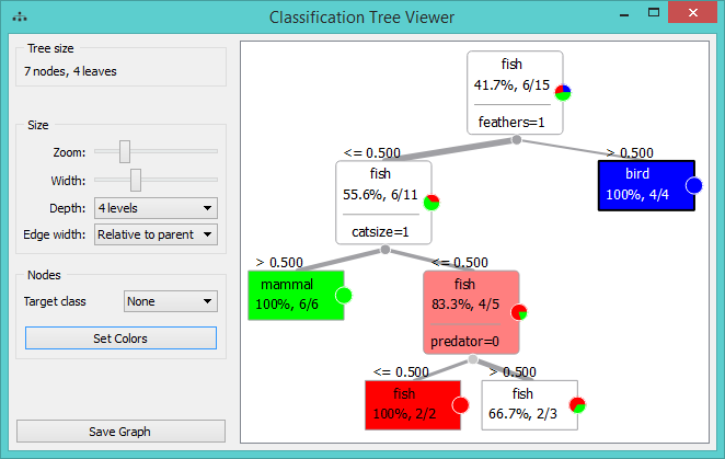 Classification Tree widget in Orange 3.0